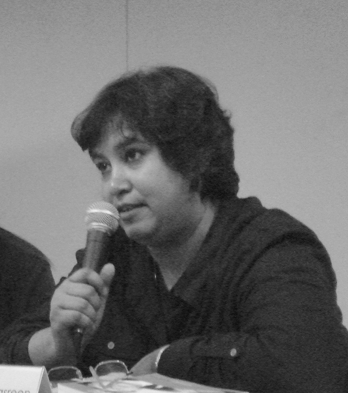 Sophie Chiang & Taslima Nasrin